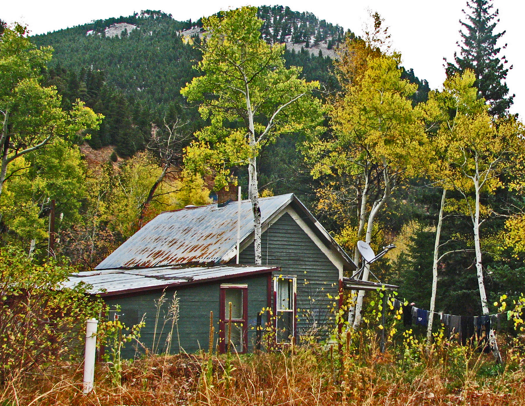 Sunset Townsite, in a valley along the Switzerland Trail, is actually a ghost town. I read that during the 1970's the population was 8. This house appeared to be the only occupied dwelling. I would hope someone sees this and would send along some details. I don't see any wires in the photo. Maybe the TV dish is powered with a generator.